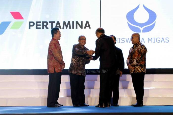 Musyawarah Nasional Himpunan Wiraswasta Nasional (Hiswana) Minyak dan Gas (Migas) ke-IX digelar pada Rabu (23/01/2019) malam. Acara ini dilaksanakan pada tanggal 23-24 Januari 2019 bertempat di Kasultanan Ballroom Royal Ambarrukmo Hotel, Yogyakarta.